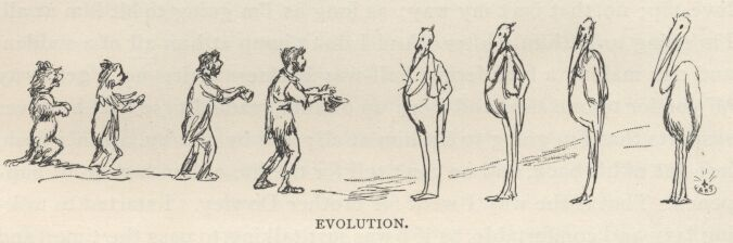 An illustration from Project Gutenberg's edition of Mark Twain's "A Connecticut Yankee in King Arthur's Court." An image of the title page shows "New York: Charles L. Webster & Company. 1889